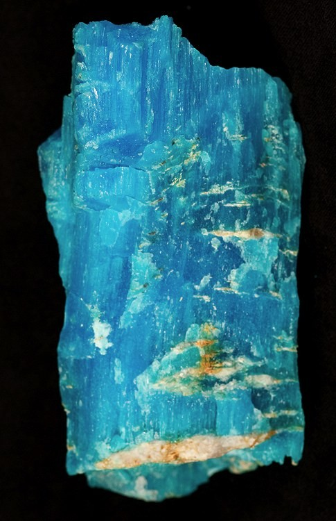 Kröhnkite Locality: Chuquicamata Mine, Chuquicamata District, Calama, El Loa Province, Antofagasta Region, Chile (Locality at ) Size: 9.9 x 4.7 x 3.2 cm. A huge 215-gram specimen of lamellar, intergrown krohnkite crystals from the deposits at Chuquicamata. This is a beautiful piece with elegant vertical form and the classic intense neon color. This specimen is composed of crystals grown together in a vein filling. It is terminated at both ends with microcrystalline growth tips that contacted the matrix which enclosed it.